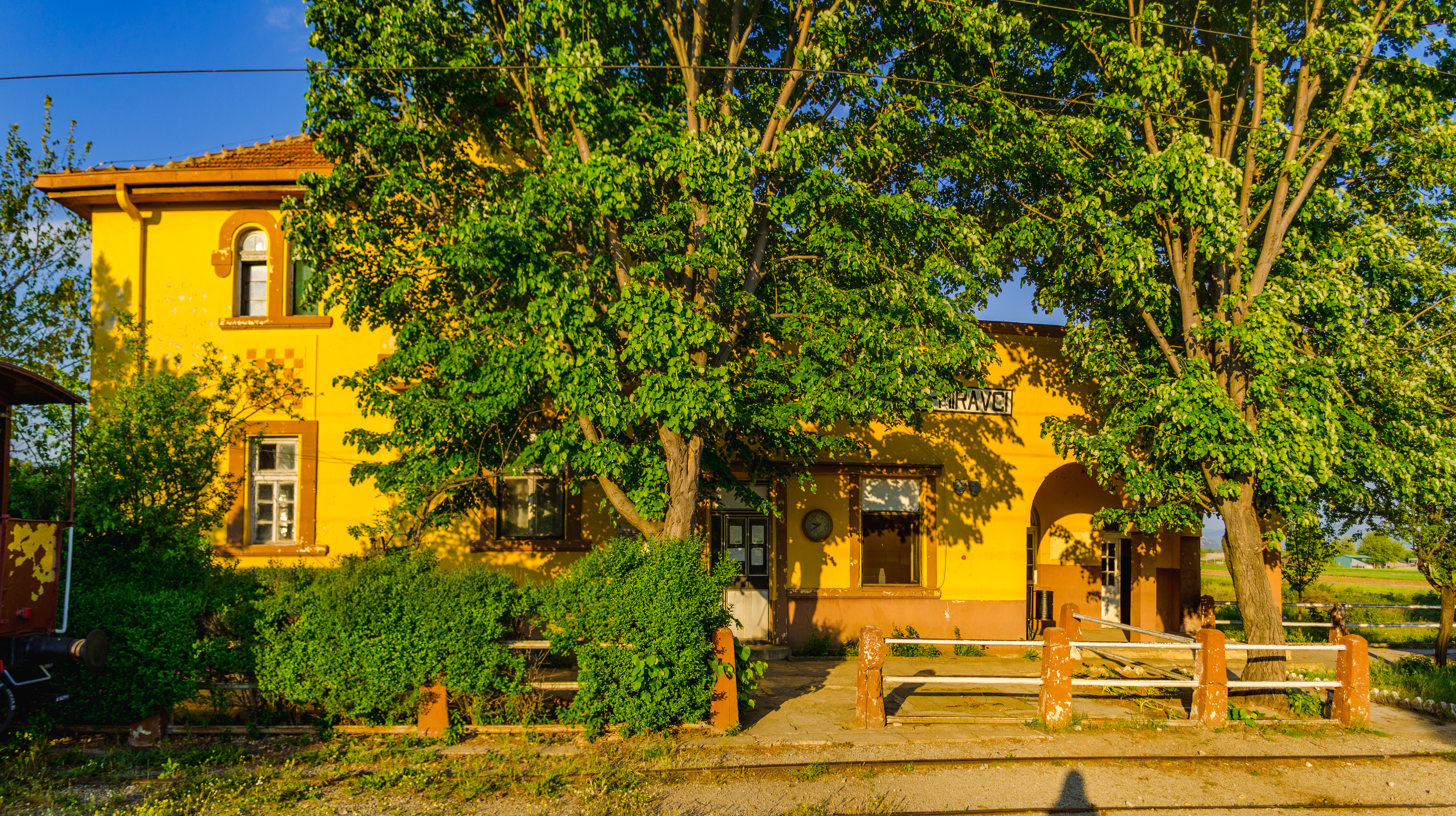 Miravci train station